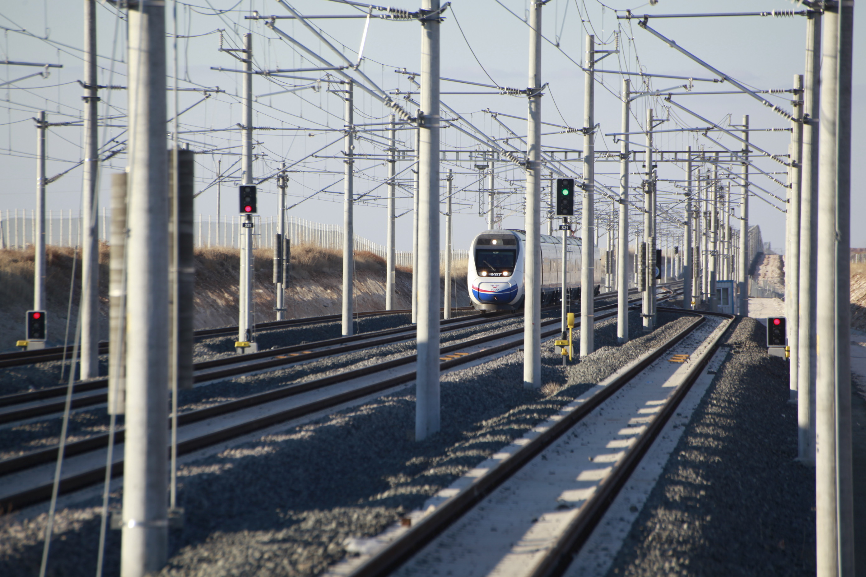 Ankara-Konya YHT